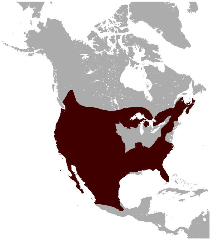 Geographical distribution of the Bobcat Lynx rufus. The map was created using the Generic Mapping Tools, GMT, version 5.1.1.